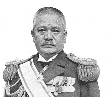 Seizo Sakonji Close-up